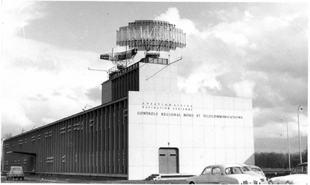 Orly : LP23 et ancien radar